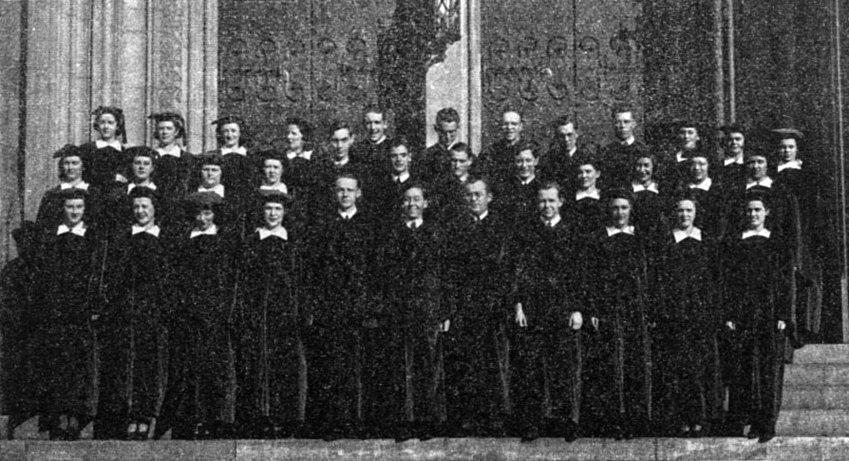 The Heinz Chapel Choir during the 1938-39 school year, the first year that Heinz Memorial Chapel was open. The members of the choir are listed as: Back Row: McLane, Gardner, Davis, McCullough, Jones, Decker, Schimmel, Feyka, Barry, Holsinger, Krenz, Ransone. Middle Row: Dent, Goldstein, Negley, Crosby, Van Swearingen, Robt. Byers, Ros. Byers, Mackey, Foster, Rhoads, Dean, Haubrick. Front Row: Baird, Perich, Post, Plank, Bacall, Trembath, Finney, Best, Hazelton, Hall, Colvin.